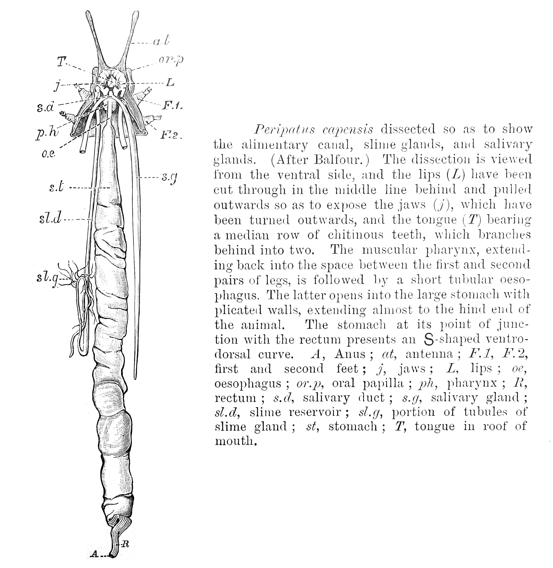 Dissection of Peripatopsis capensis (in those days still called Peripatus) showing major internal organs. Copied from Cambridge Natural History 1922